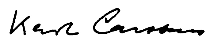 signature of Karl Carstens